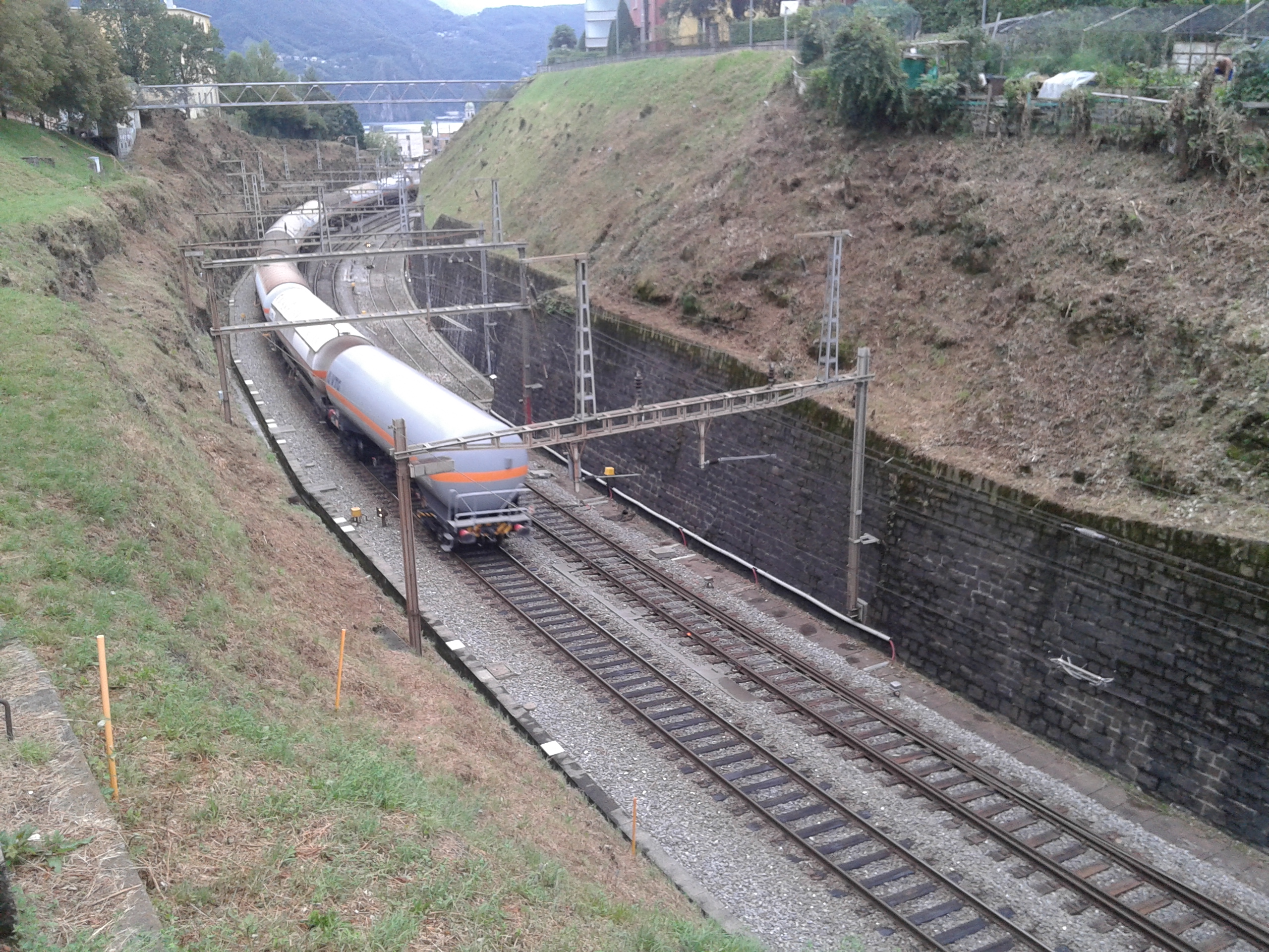 This ditch (about 800 m long) runs through the municipality of Massagno (Ticino, Switzerland). The railway line runs from the north to the Lugano (Ticino) long-distance and urban railway station.